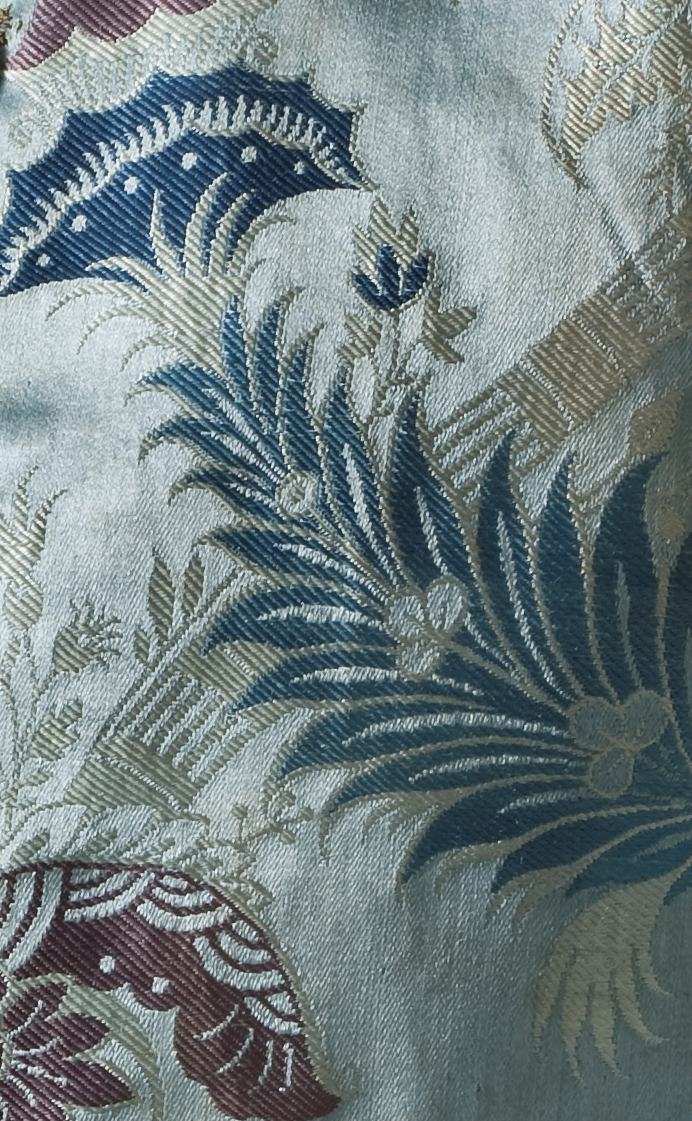 Textile detail of man’s "bizarre" silk sleeved waistcoat, France, circa 1715.